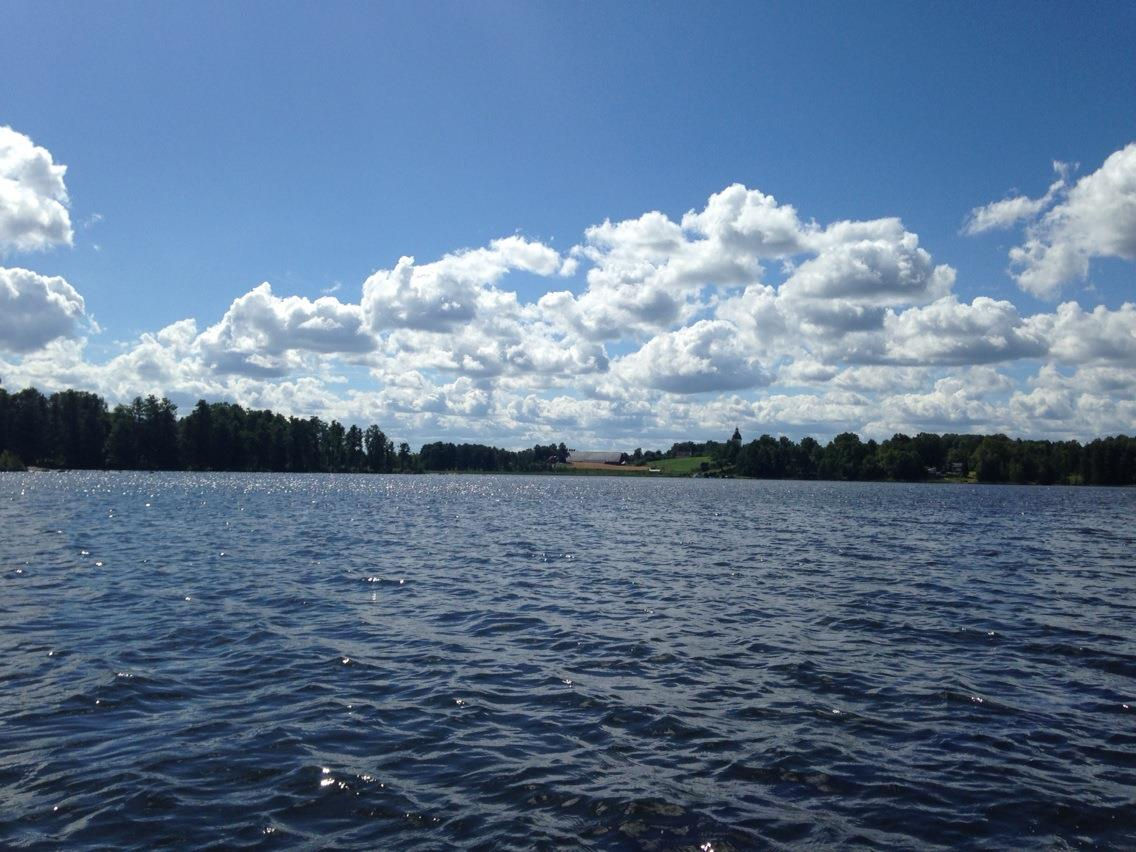 Ämmern, mot Tjärstad